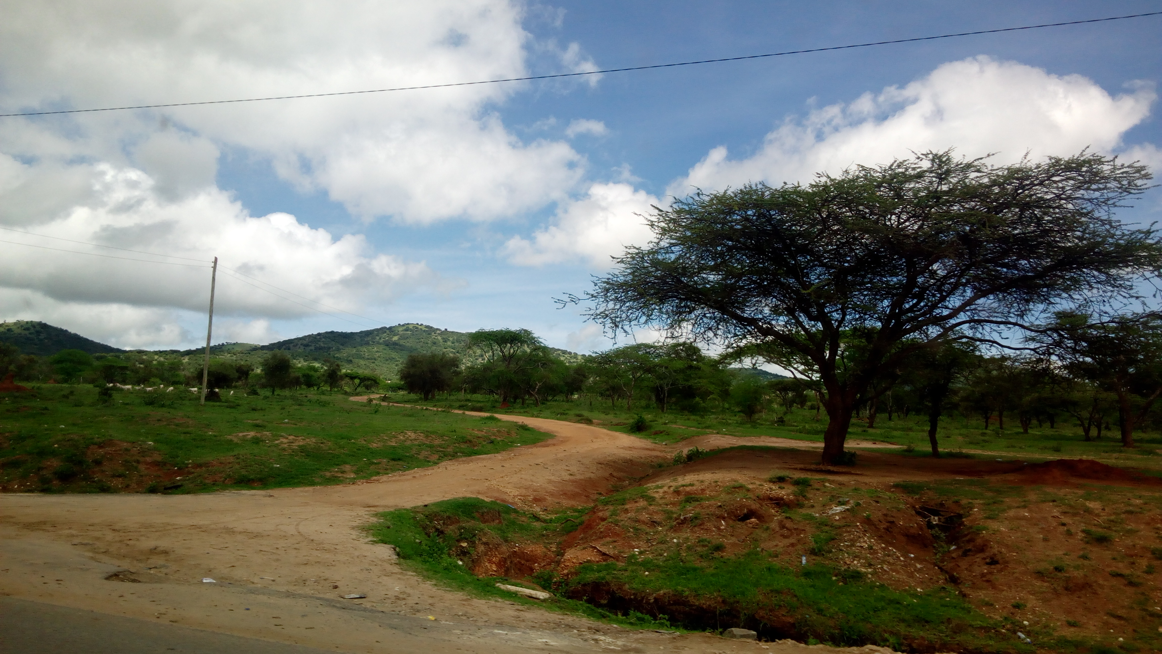 This is an image with the theme "Africa on the Move or Transport" from: Kenya